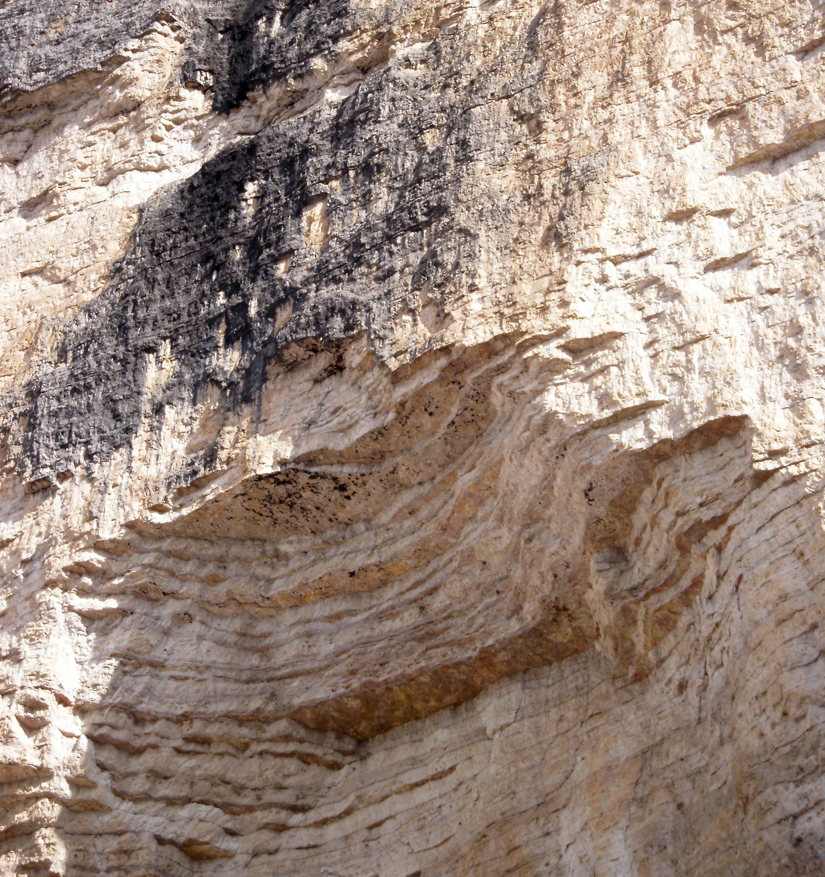 North face Westliche Zinne (Cima Ovest)